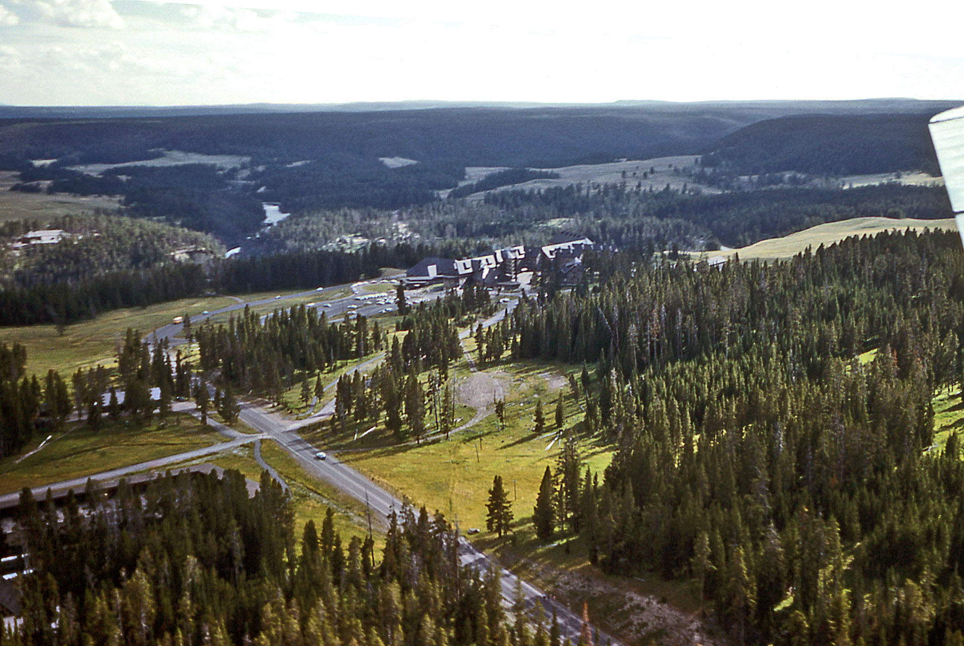 Aerial view of the Canyon Hotel in Yellowstone National Park, Wyoming, USA. NPS public domain slide file, color corrected, rotated and cropped.